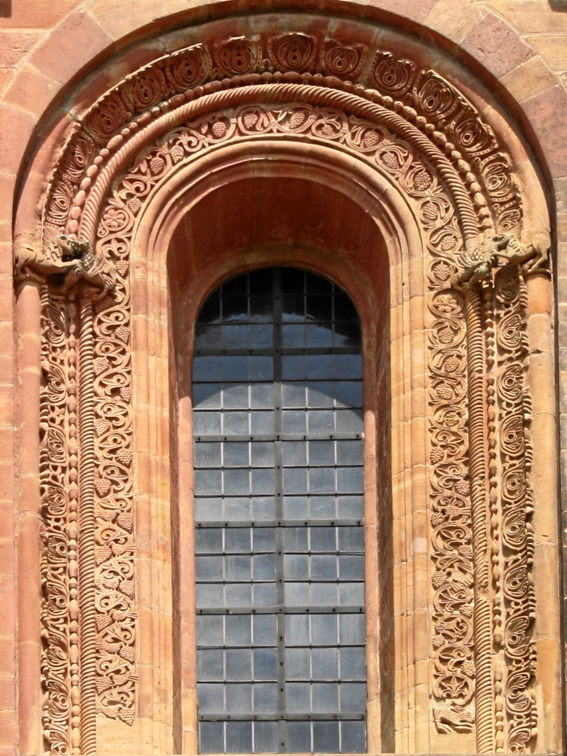 Decor at a southern transept's window of the Roman-catholic cathedral, Speyer, Germany.